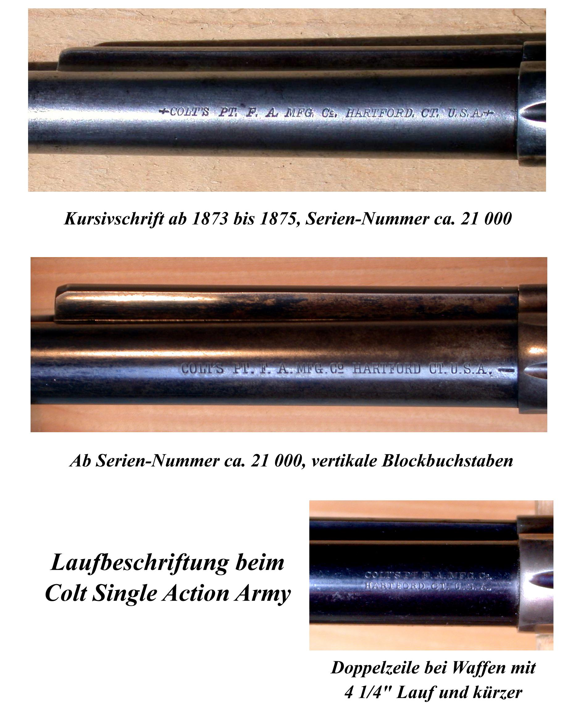 Colt SAA Different Barrel Addresses